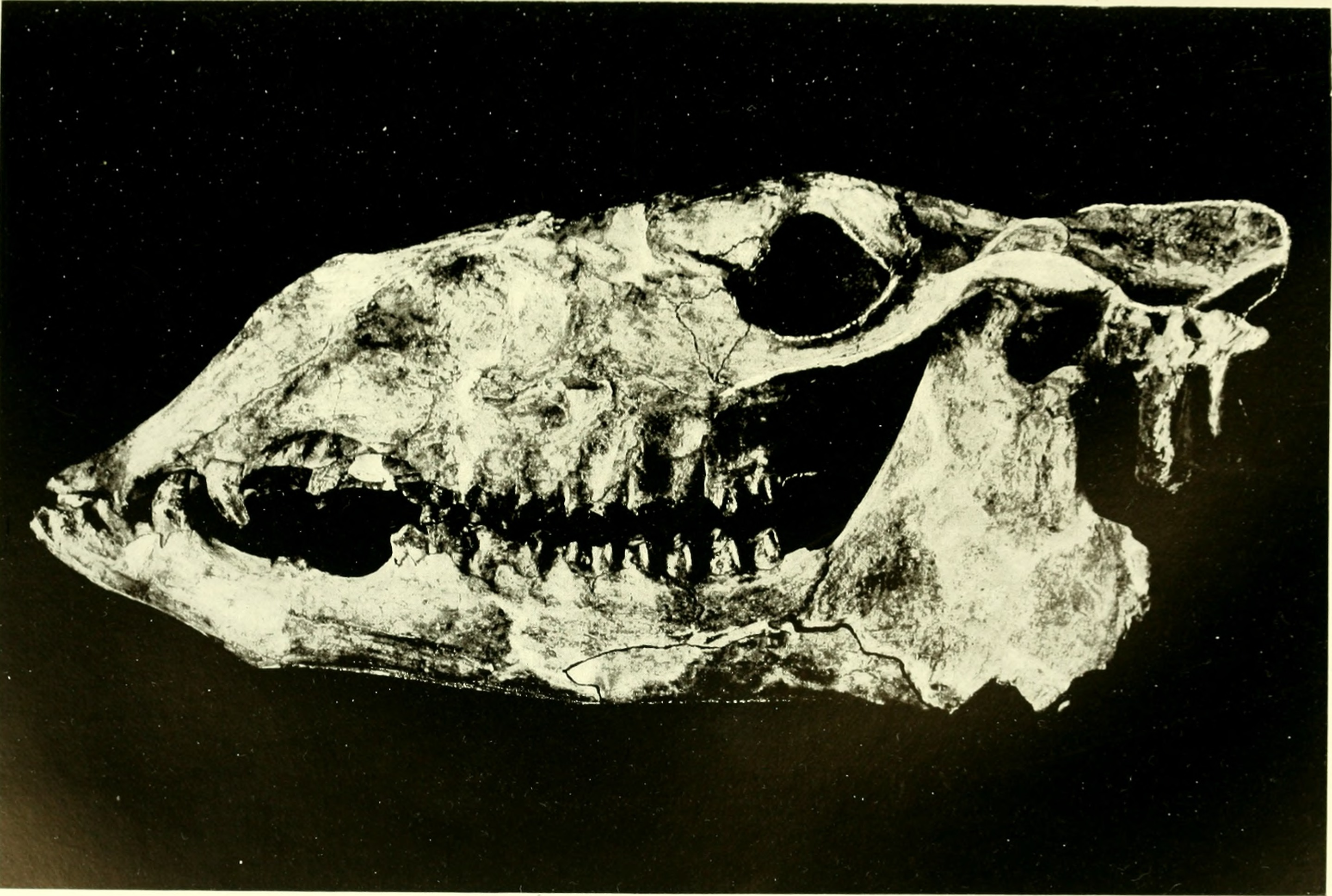 Title: Annals of the Carnegie Museum Year: 1910-1911 (1910s) Authors: Carnegie Museum; Carnegie Museum of Natural History Subjects: Carnegie Museum; Carnegie Museum of Natural History; Natural history Publisher: [Pittsburgh : Published by authority of the Board of Trustees of the Carnegie Institute] Text Appearing Before Image: ' Text Appearing After Image: '